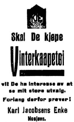 Advertisement for Karl Jacobsens Enke (